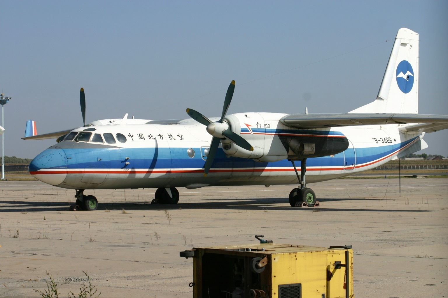 At Harbin